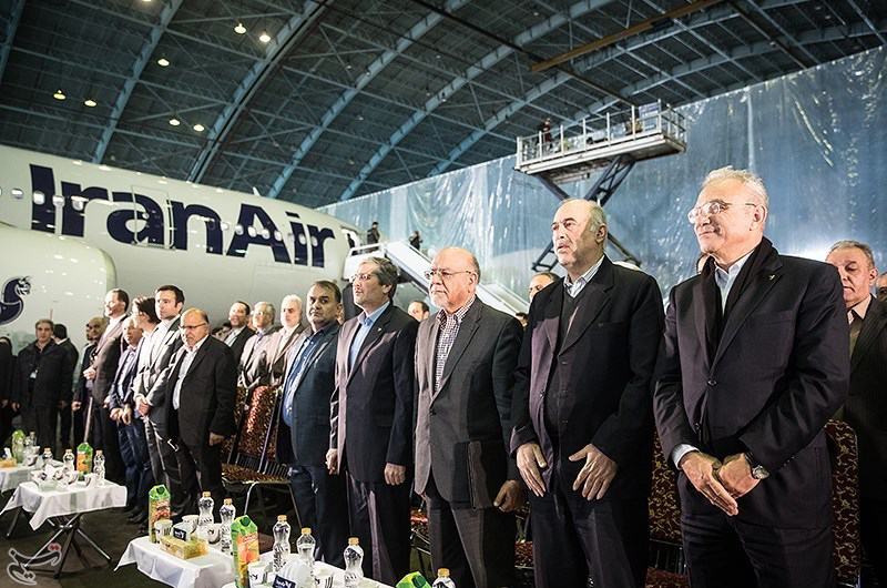 Arrival of Iran Air Airbus A330-200 (EP-IJA) at Mehrabad International Airport